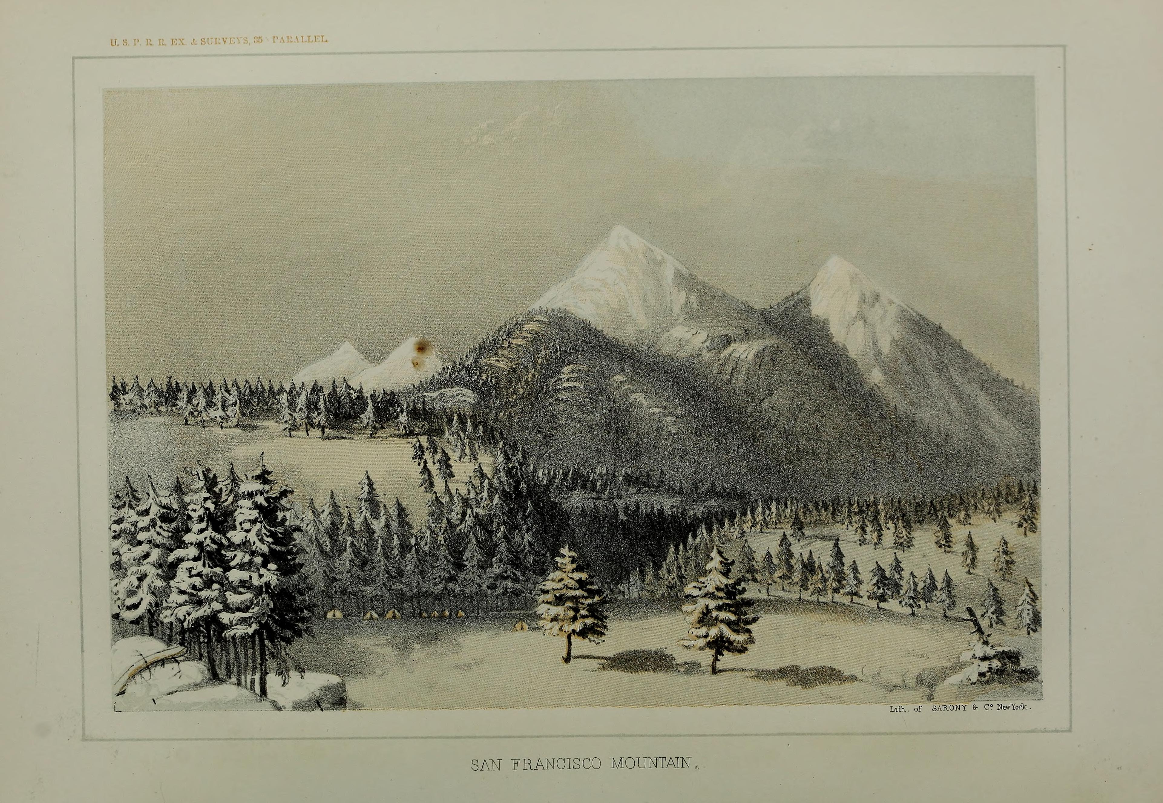 Title: Reports of explorations and surveys, to ascertain the most practicable and economical route for a railroad from the Mississippi River to the Pacific Ocean Year: 1855 (1850s) Authors: United States. War Dept Henry, Joseph, 1797-1878 Baird, Spencer Fullerton, 1823-1887 United States. Army. Corps of Engineers Subjects: Pacific railroads Discoveries in geography Natural history Indians of North America Publisher: Washington : A.O.P. Nicholson, printer (etc.) Text Appearing Before Image: 9 a. m. we continued our backward march, to a point near the bivouac ofDecember 16. Here we turned more to the right, and, from the prairie valley before men-tioned, found an arroyo leading eastward towards Canon Diablo. Turning from this, we crosseda low lava ridge and entered a grassy meadow. Skirting a forest of cedars and pine, we de-scended the arroyo to a sudden breaking away of the rocks, which produced a fine place for awaterfall, and a short canon below. Water was still standing in pools above, and beneath * This stream was called by Leroux Rio San Francisco, from the mountain near which it takes its rise, and it is thus desig-nated in the report of Captain Sitgreaves. The early Spanish explorers gave it the name of Rio Verde, which is still retainedamong the Mexicans of the present day, and appears upon modern maps. As there is another affluent to the Gila known asthe San Francisco river, it would seem proper, if only to avoid confusion, to preserve the original appellation. Text Appearing After Image: '